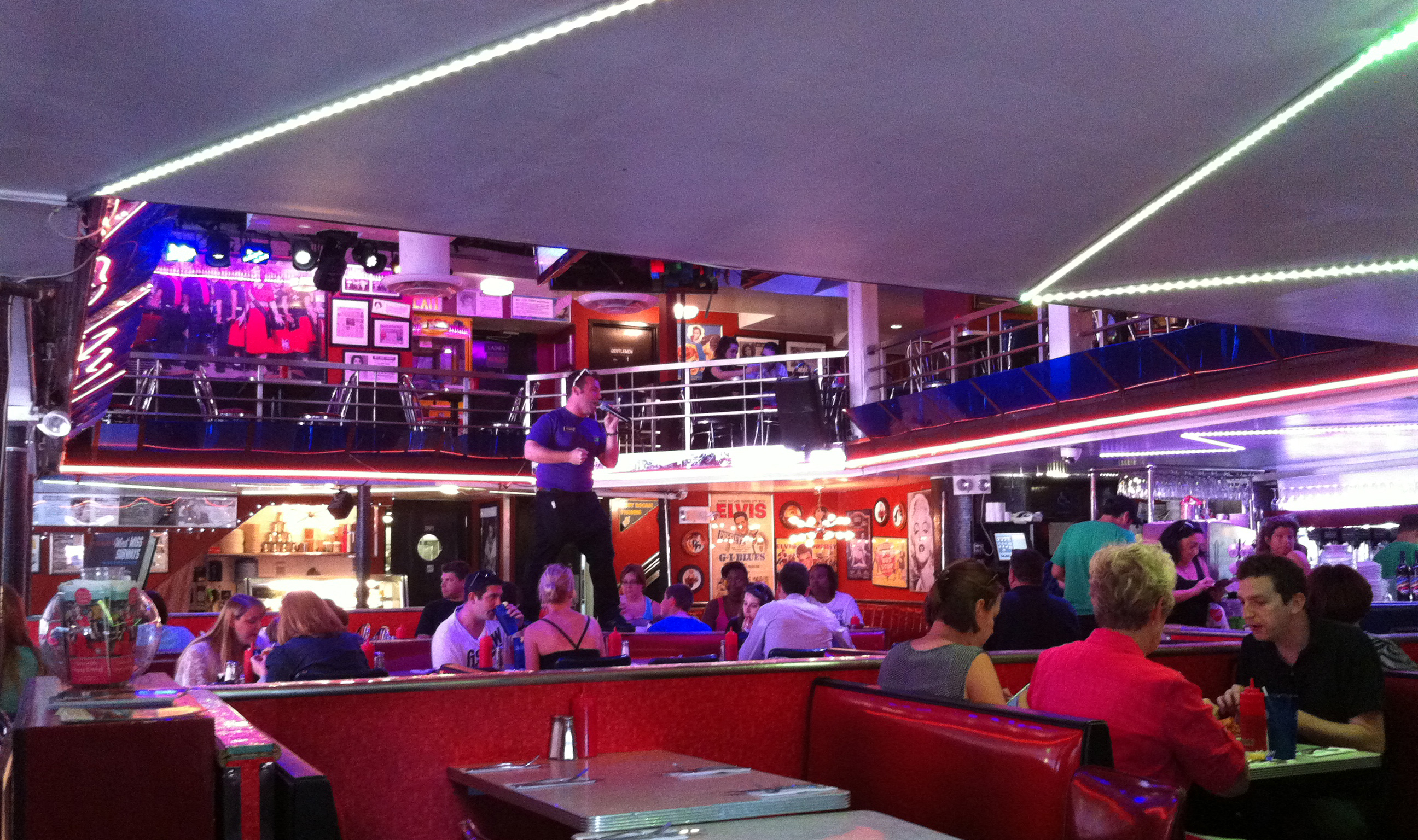 Ellen's Stardust Diner, 1650 Broadway, Manhattan, New York.